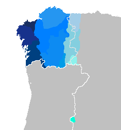 Linguistic varieties of the Galician language